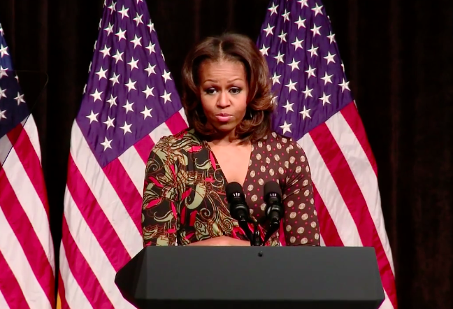 First Lady of the United States Michelle Obama giving a speech at Columbia Heights Education Campus in Washington, D.C.